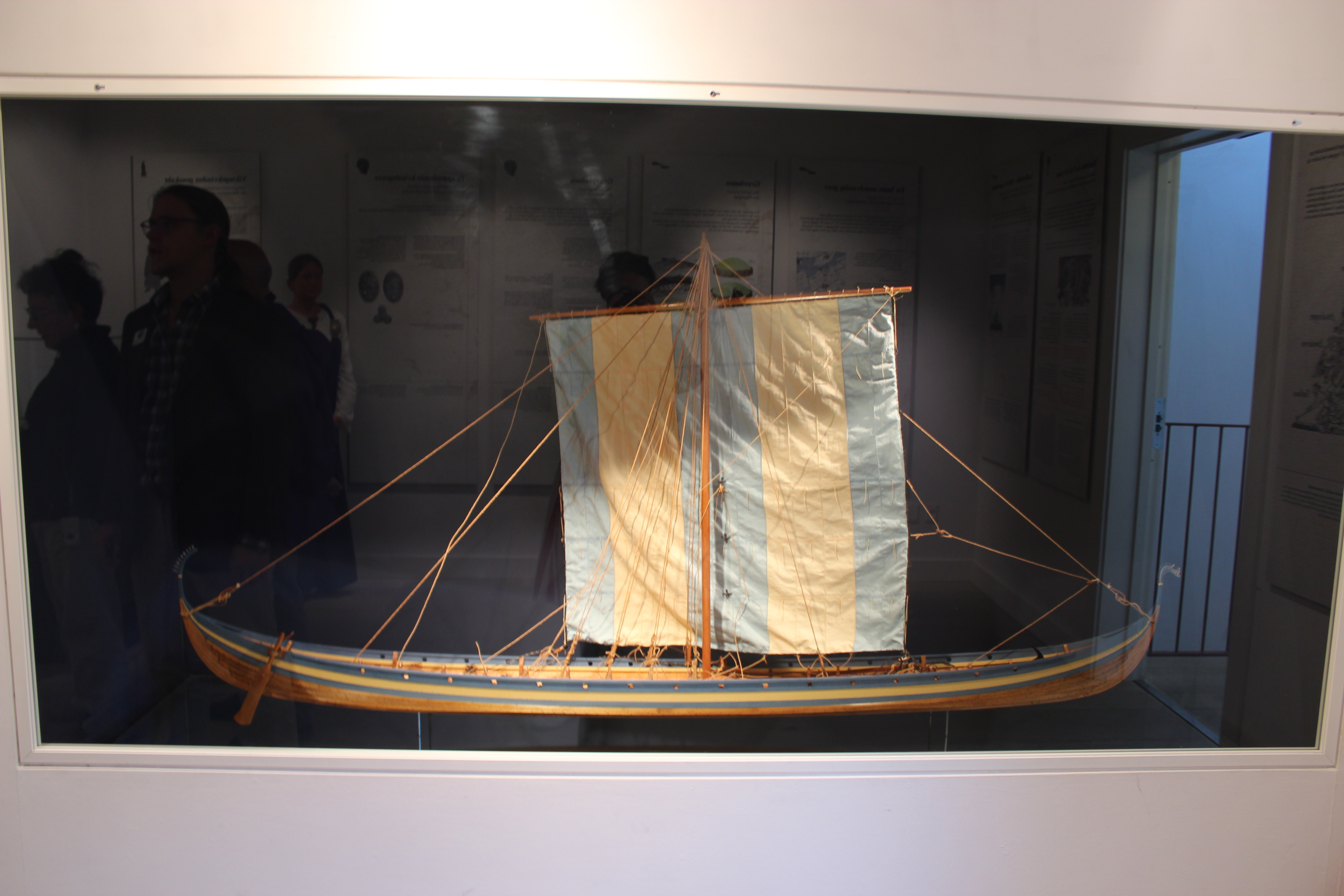 Model of Ladbyskibet in 1:10 in the exhibition at Vikingmuseum Ladby